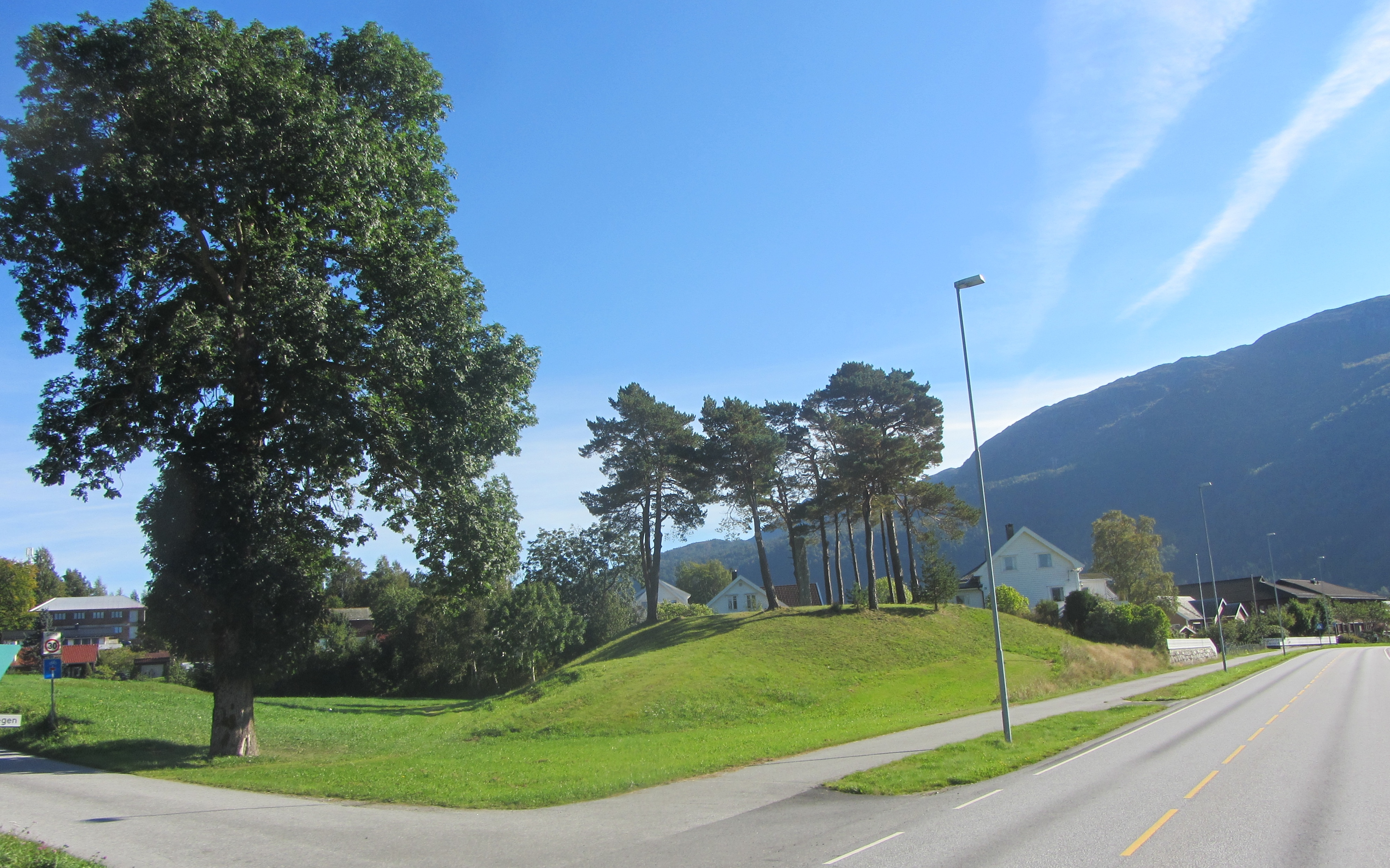 Nordfjordeid, Sogn og Fjordane, Norway, 2014-09-17